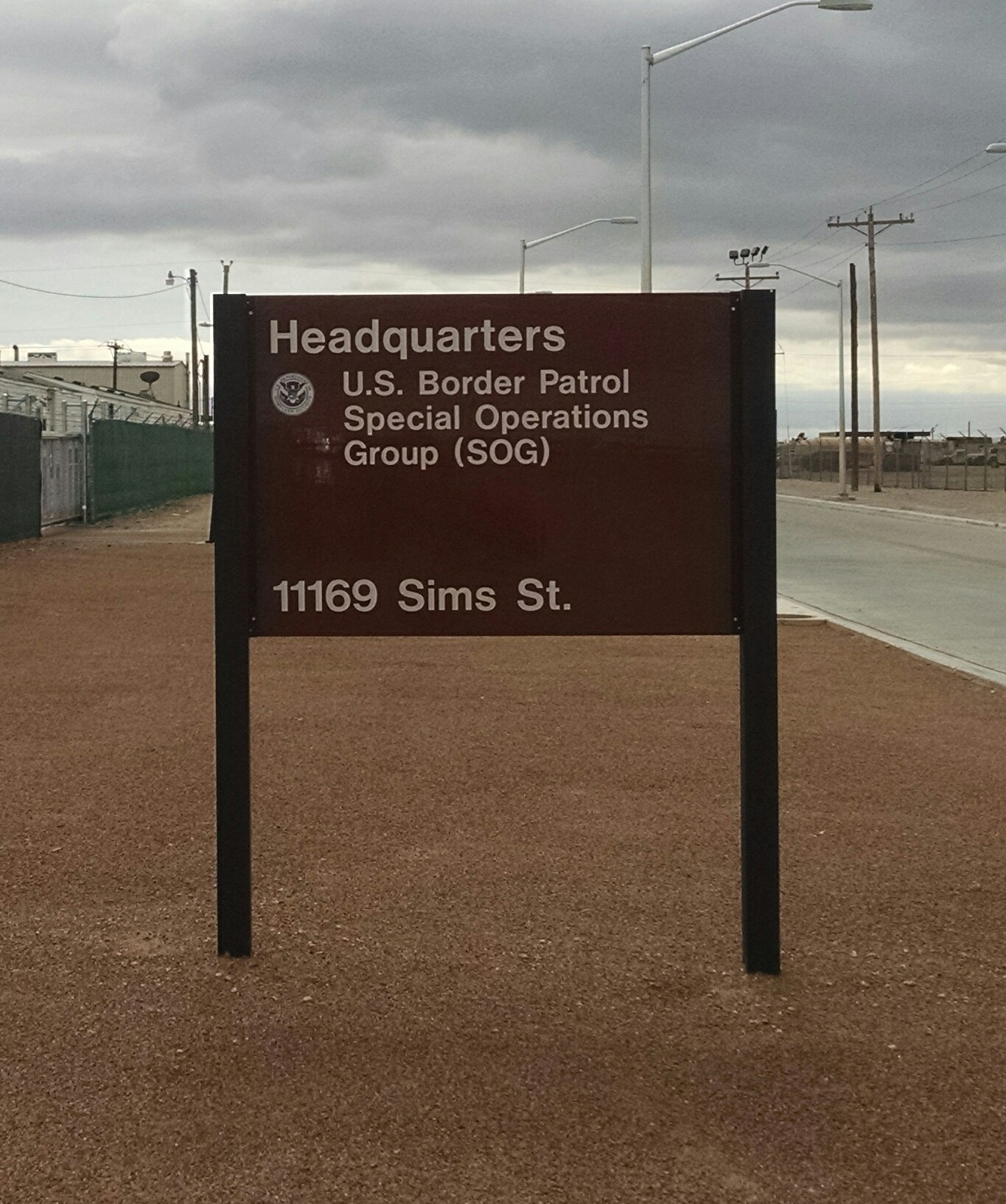 Sign for US Border Patrol Special Operations Group on Biggs Airfield, Ft Bliss, El Paso TX